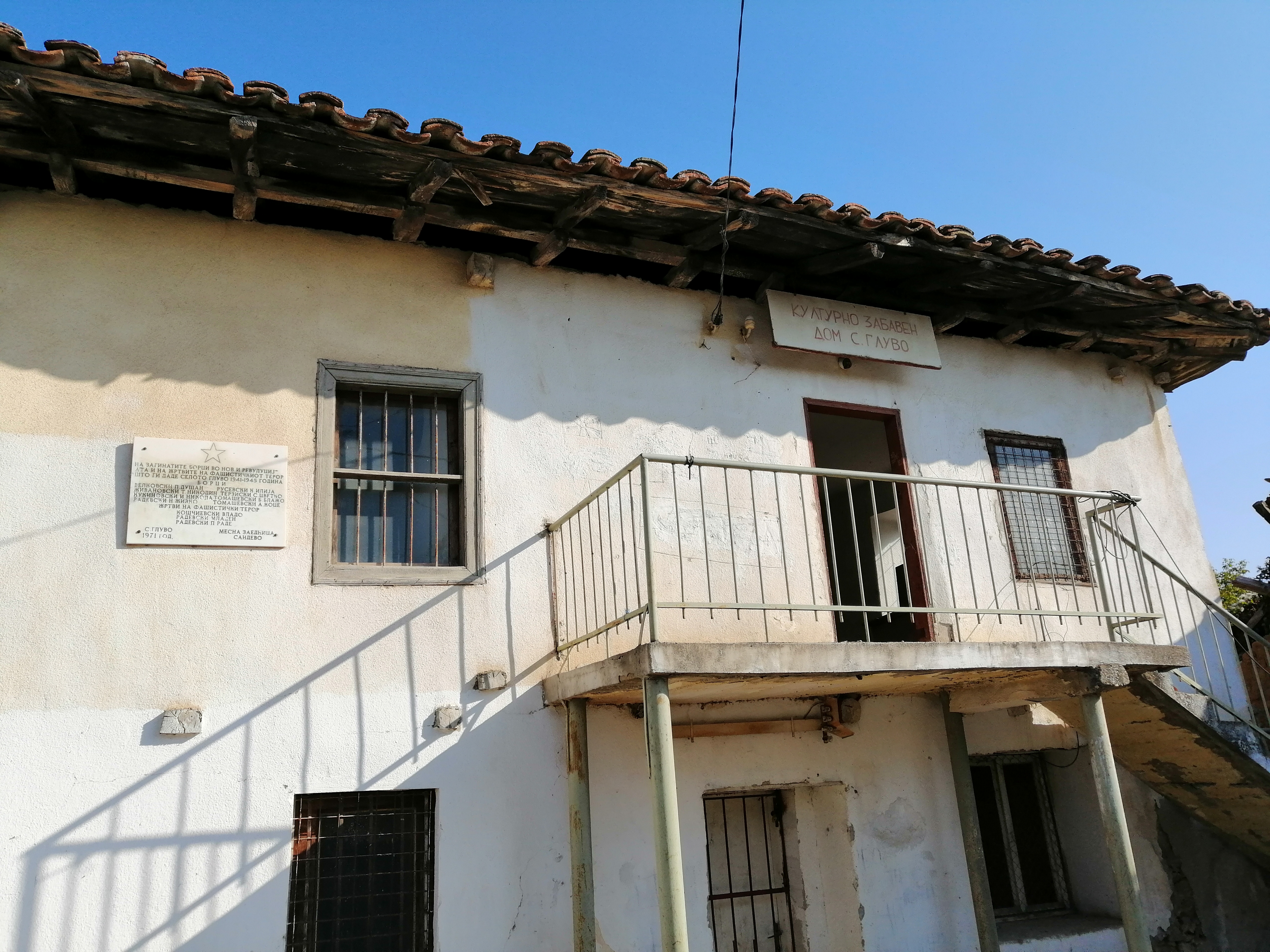 Cultural center in the village Gluvo